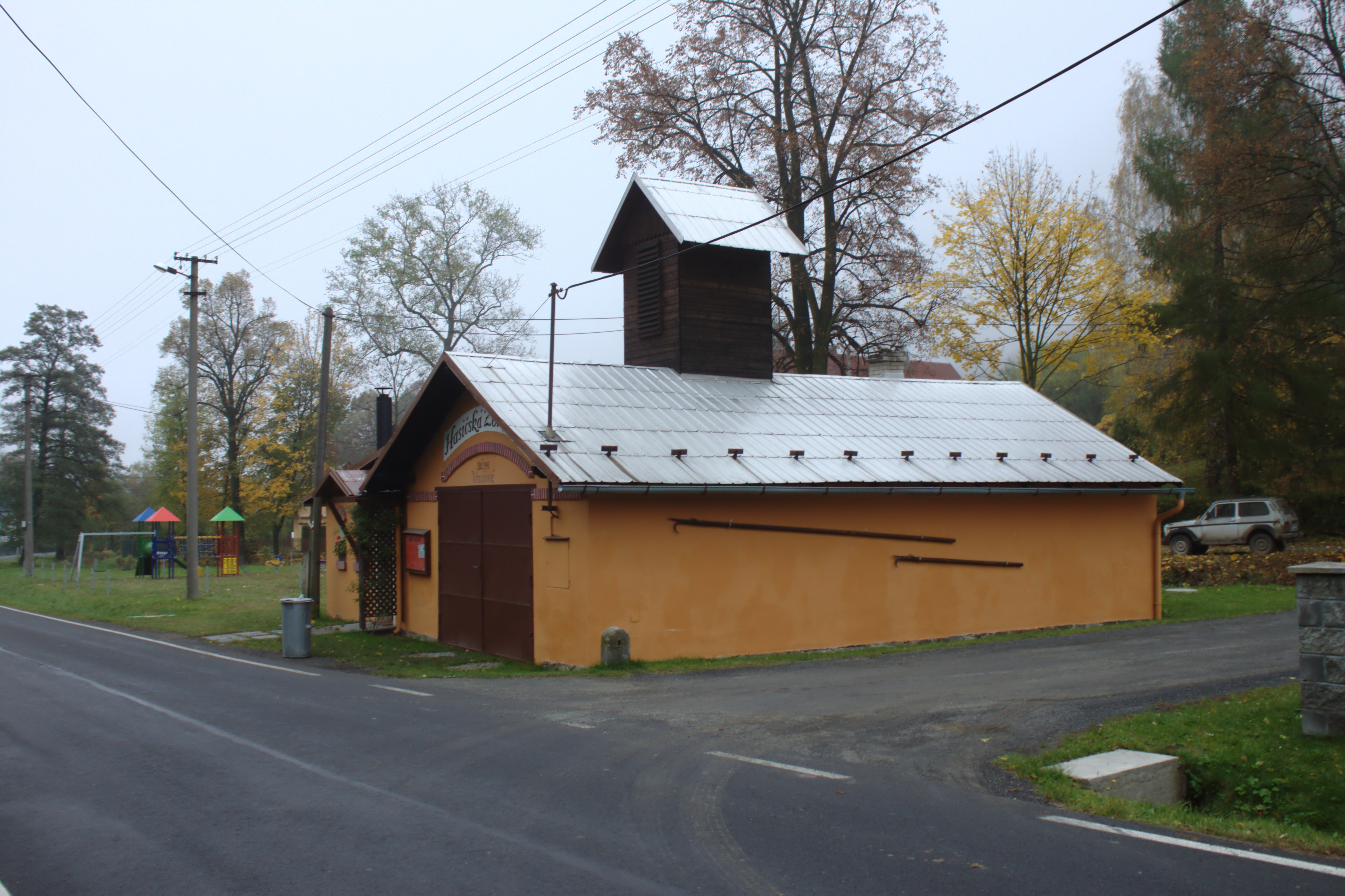 A fire station in Vraclávek, Moravian-Silesian Region, CZ